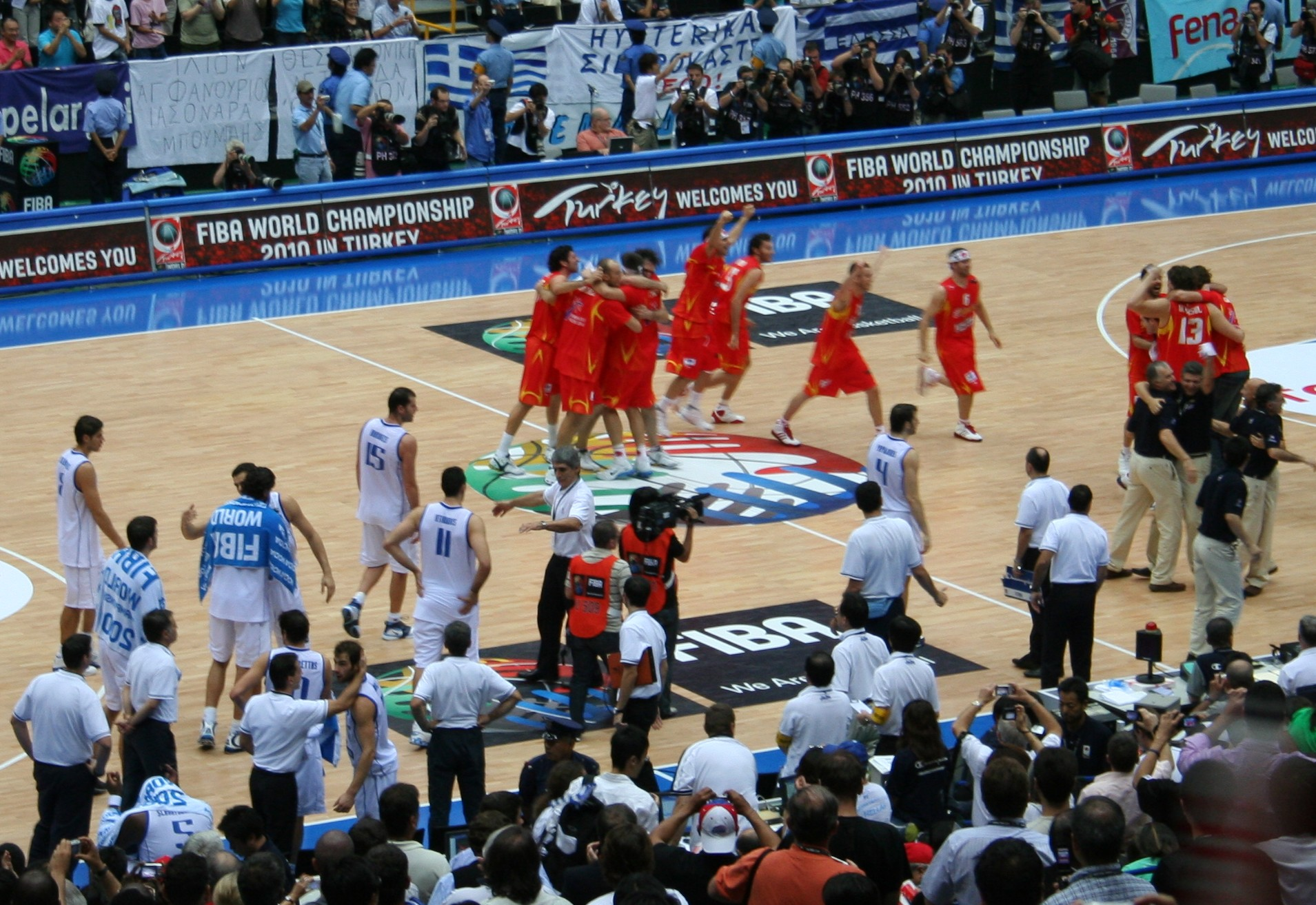 Basketball World Cup 2006 in Japan. After the final match between Spain and Greece (70:47) the new champions are cheering while the Greek players are depressed